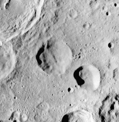 Bingham crater - image AS16-M-2871 from Apollo Image Archive.